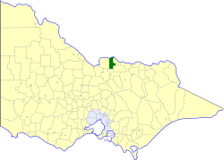 Location of the Shire of Numurkah within Victoria.